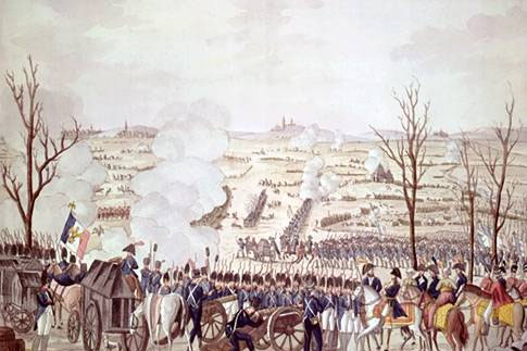 the battle of Austerlitz